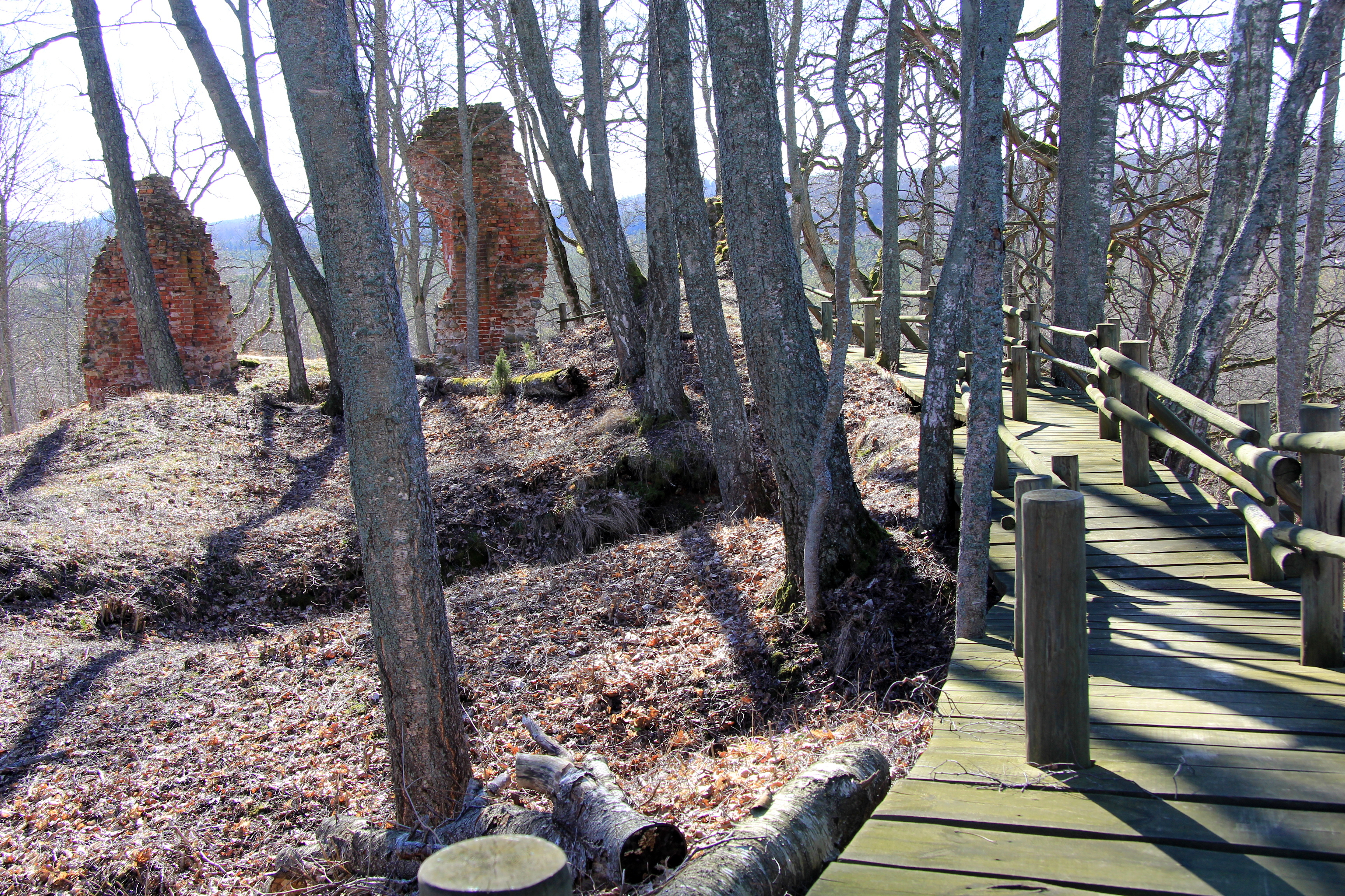 Augstroze Castle ruins